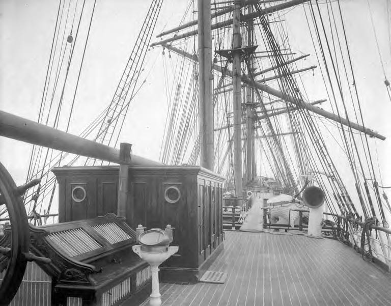 Handwritten on verso: 4 m. bk FORTEVIOT, Liverpool